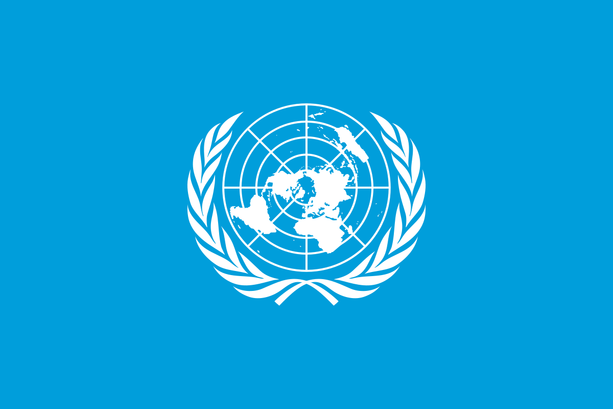 Flag of the United Nations.